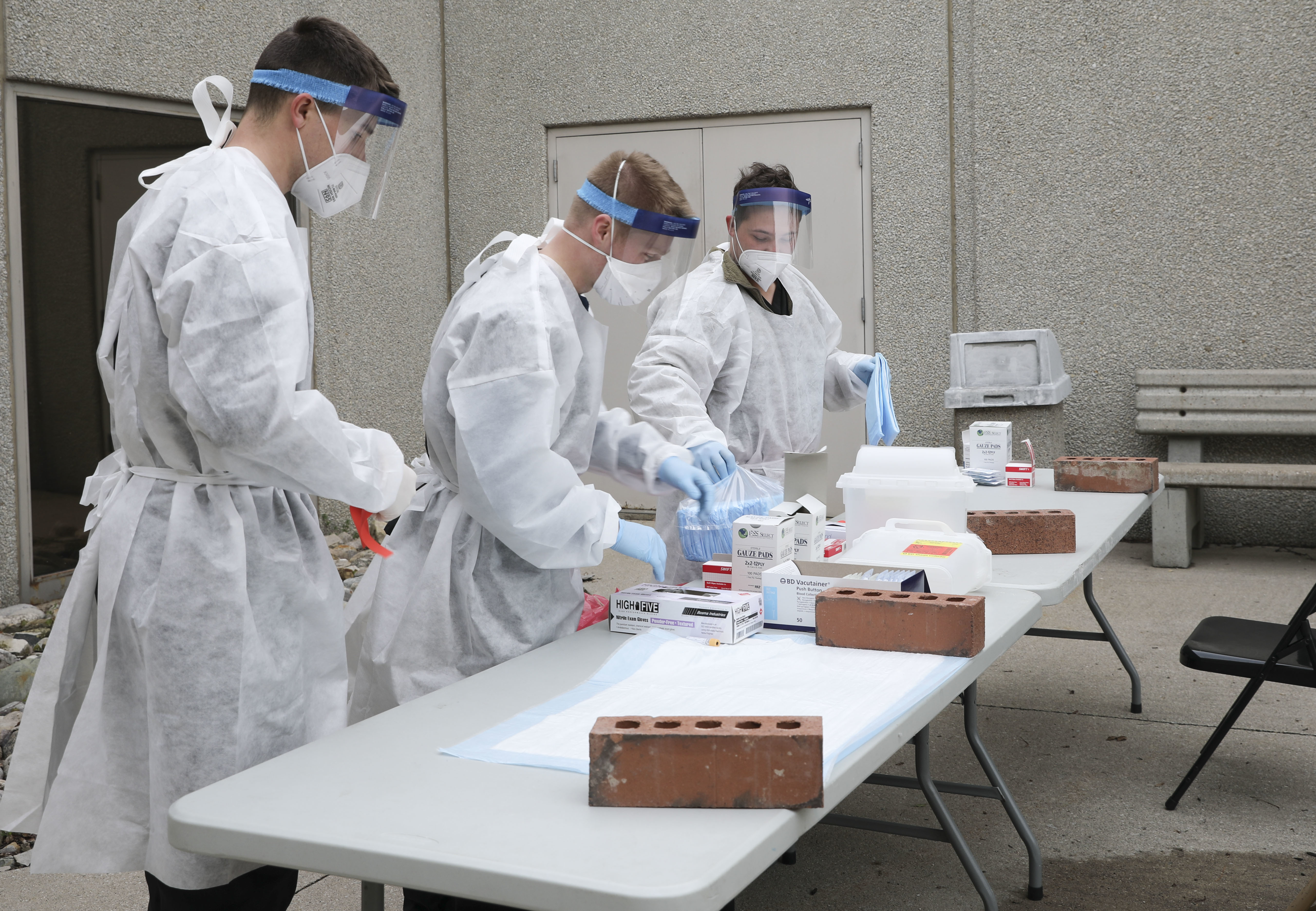 Indiana National Guard Soldiers and Airmen in northeast Indiana supported a statewide collaborative effort with the Indiana State Department of Health and other local organizations in a recent COVID-19 study, which took place April 24 through April 29. (Photo by Pfc. Hannah Clifton)